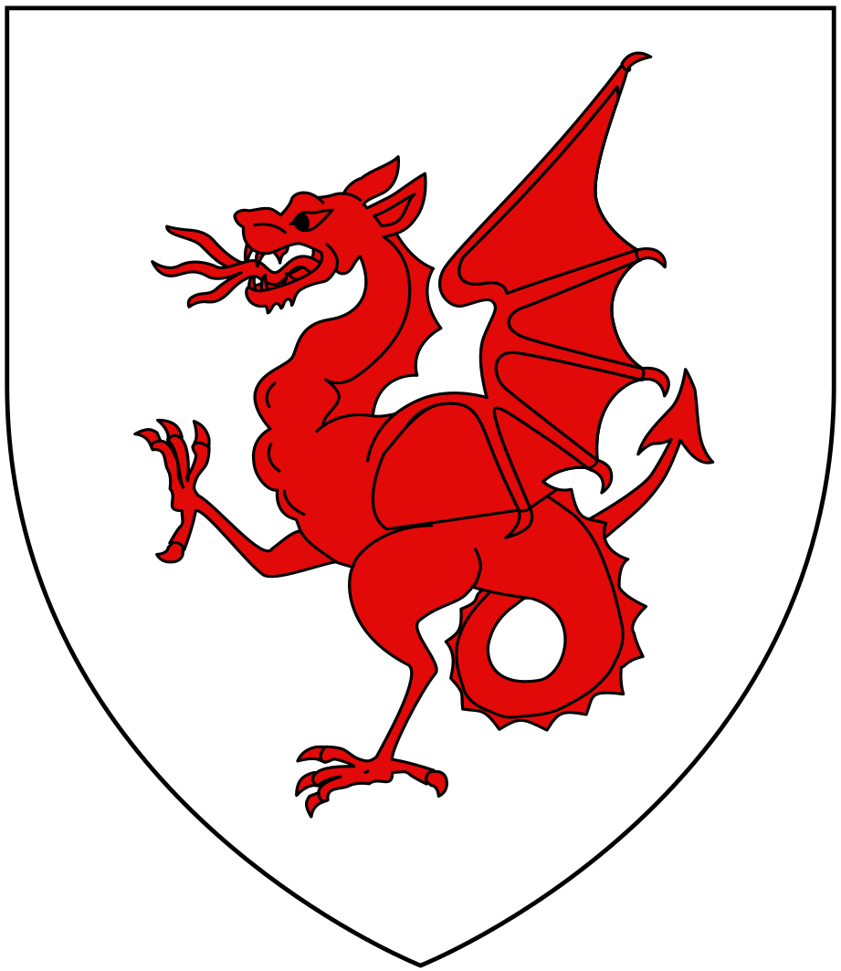 Arms of Drake of Ash in the parish of Musbury, Devon: Argent, a wyvern wings displayed and tail nowed gules (Source: Vivian, Lt.Col. J.L., (Ed.) The Visitation of the County of Devon: Comprising the Heralds' Visitations of 1531, 1564 & 1620, Exeter, 1895, p.292)